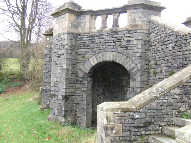 Remains of Grizedale Hall The last remnants of Grizedale Hall, a glorious building in the heart of the Grizedale Forest, used as a German prisoner of war camp during World War 2, and setting for the POW film "The One That Got Away" starring Hardy Kruger.